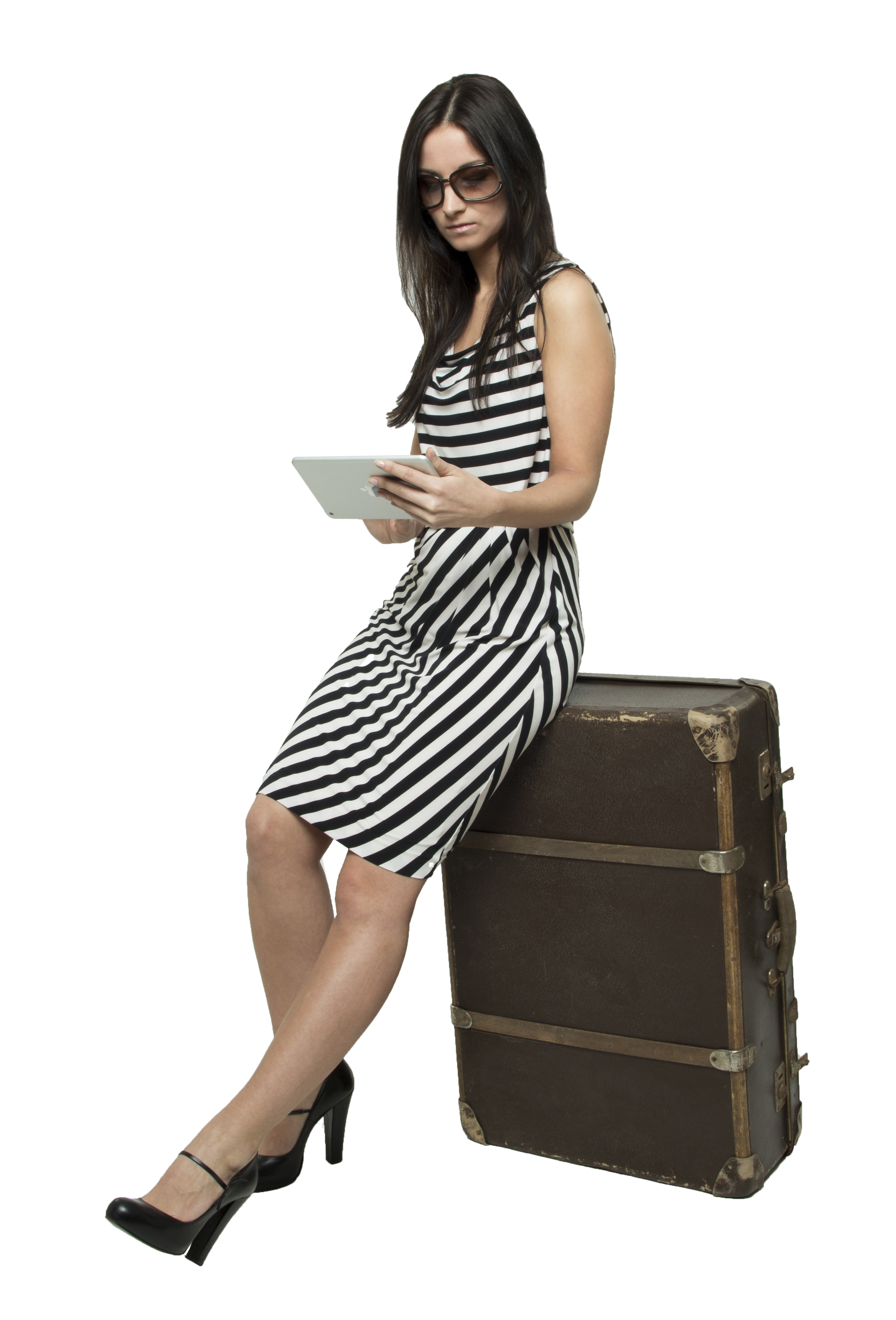 Searching for carpool